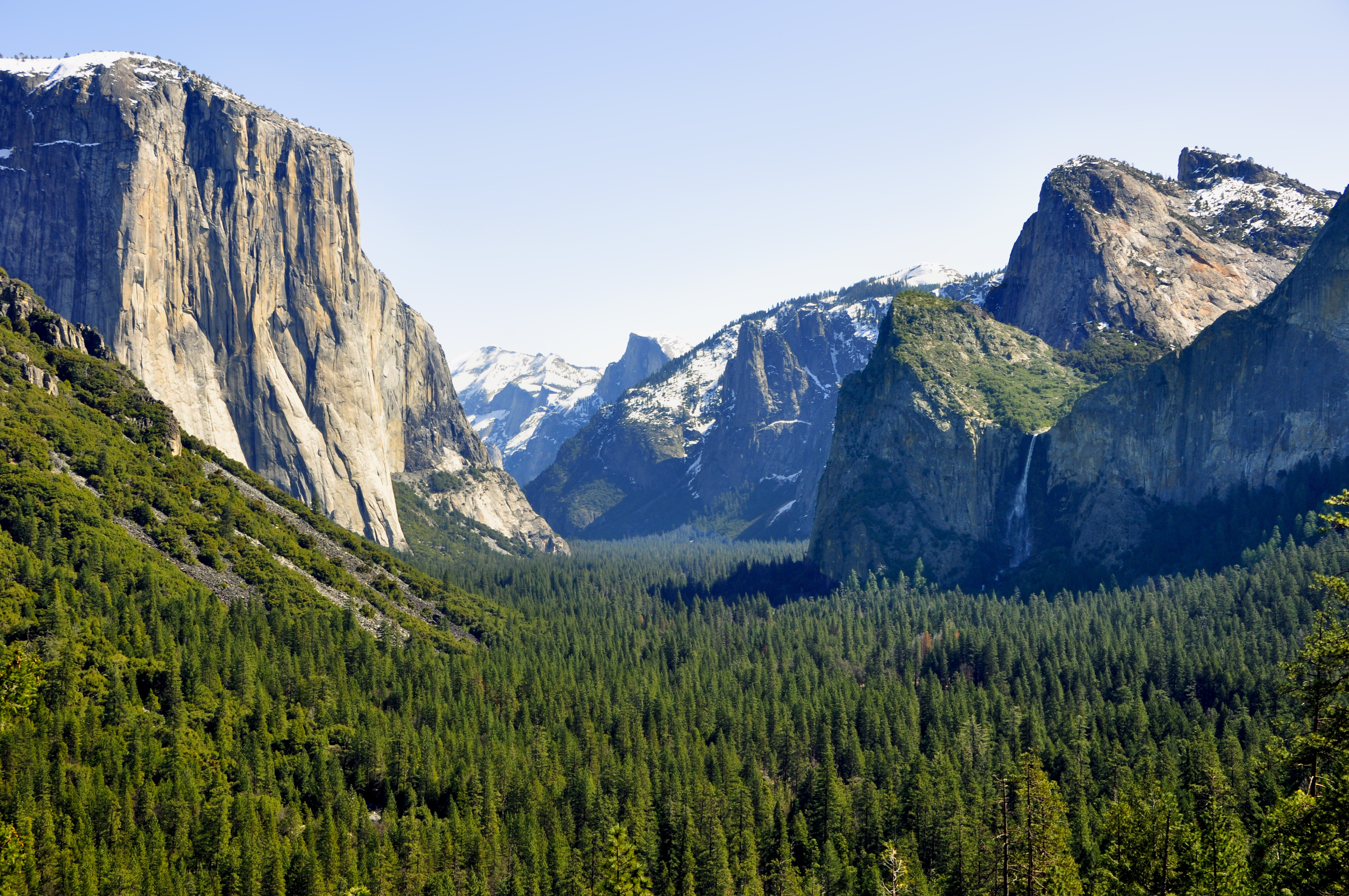 Yosemite Valley Tunnel View